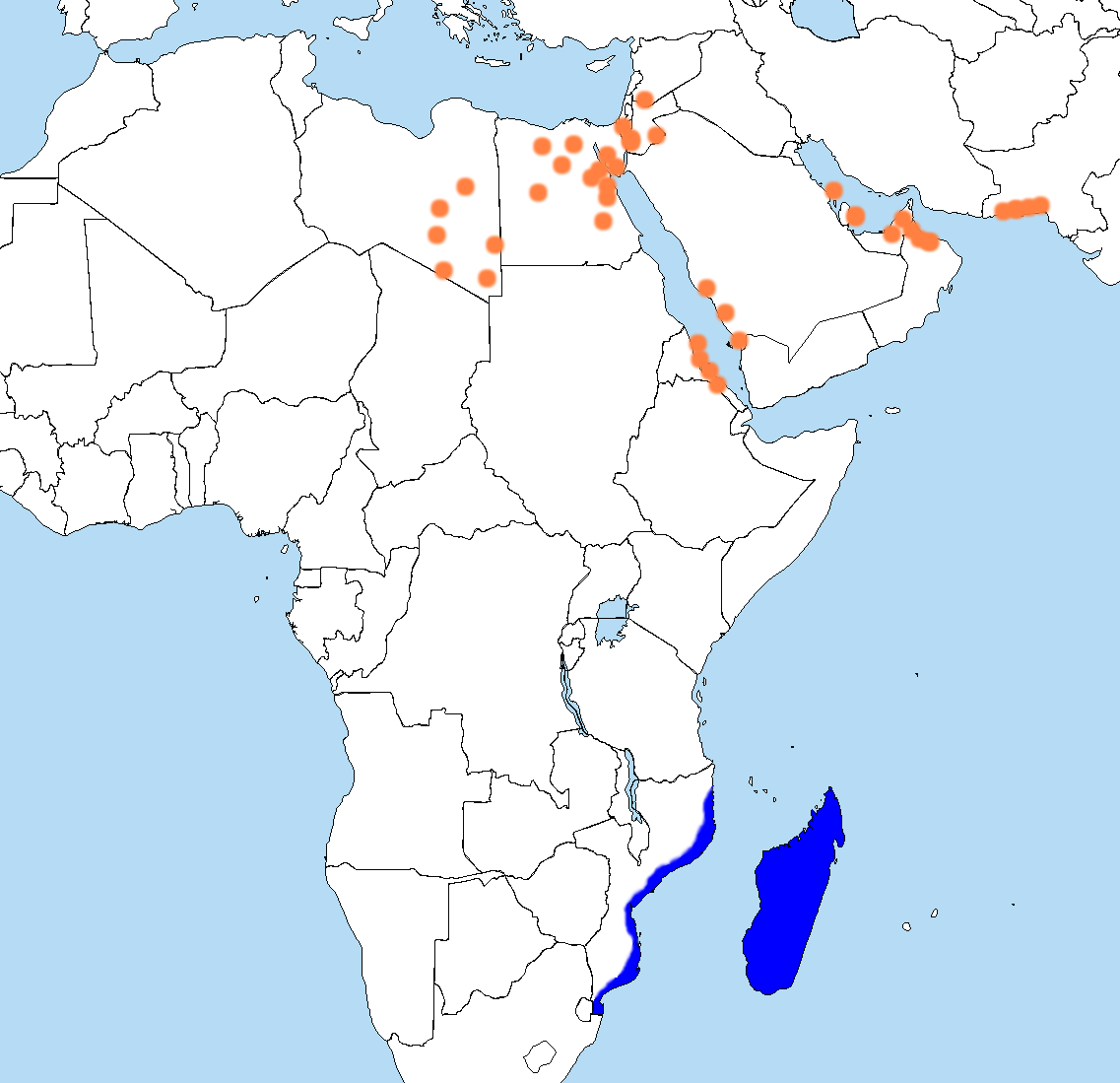 Range Map of Falco concolor